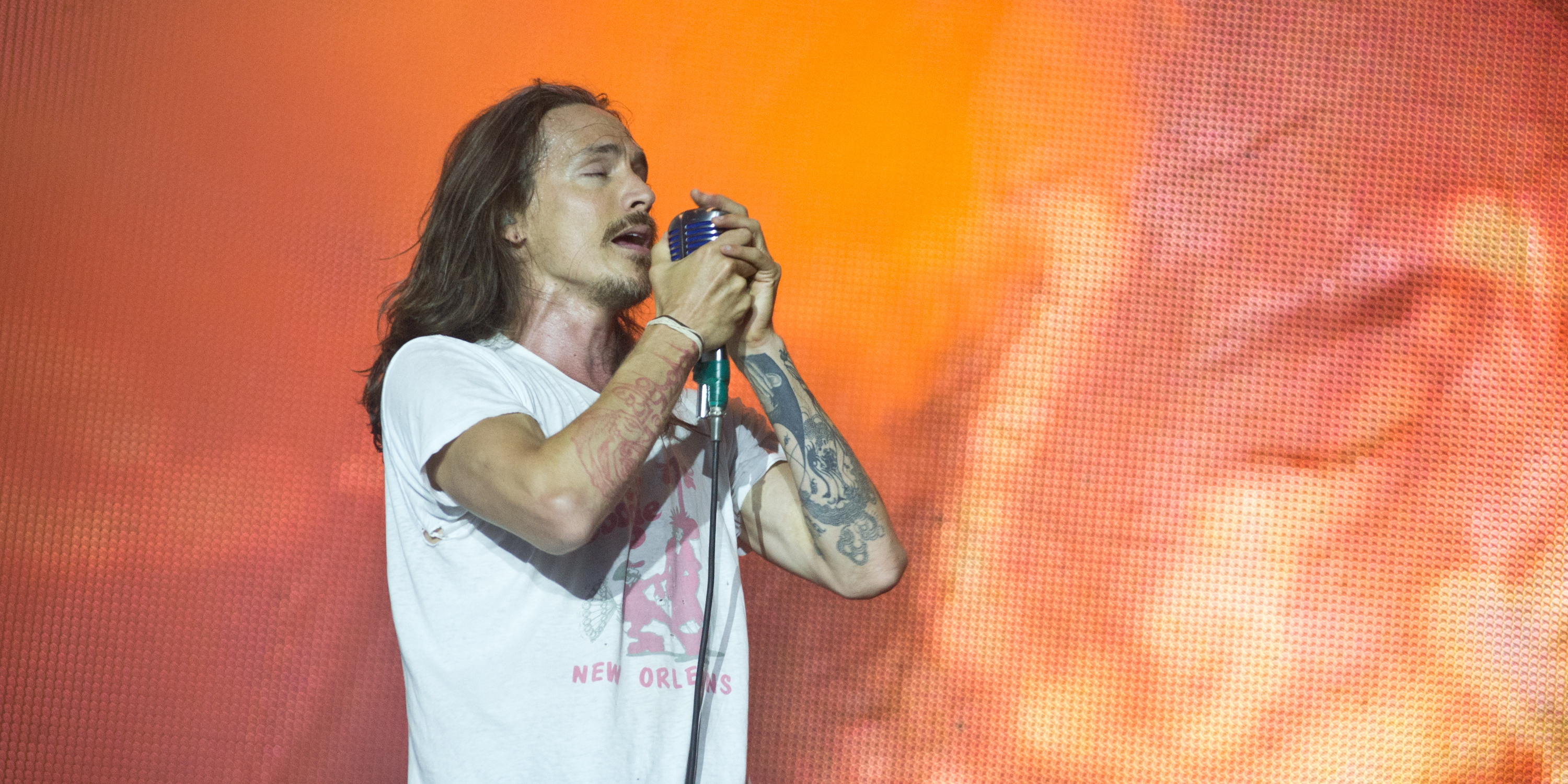 Incubus in Rock in Rio Madrid 2012.